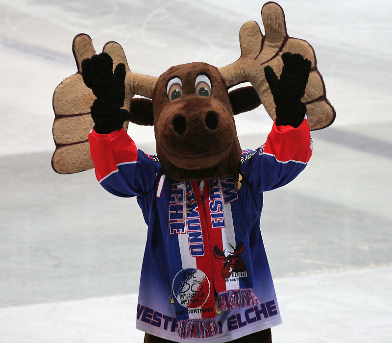 EHC Dortmund - "Chicco"